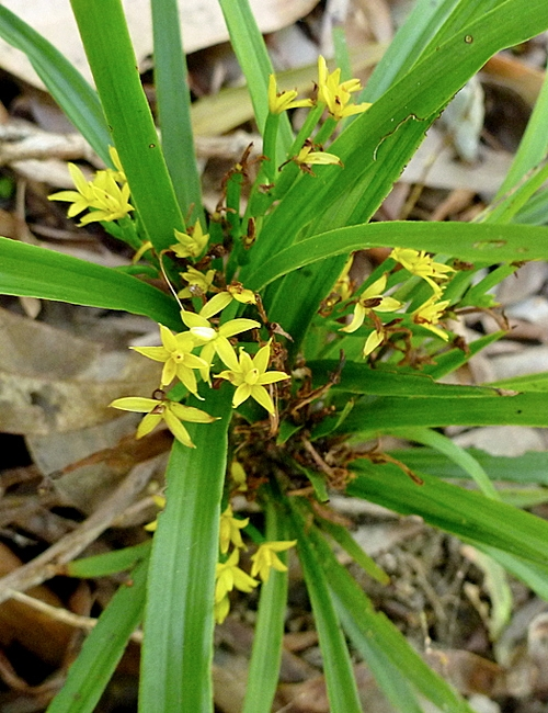 Apostasia wallichii near Cairns